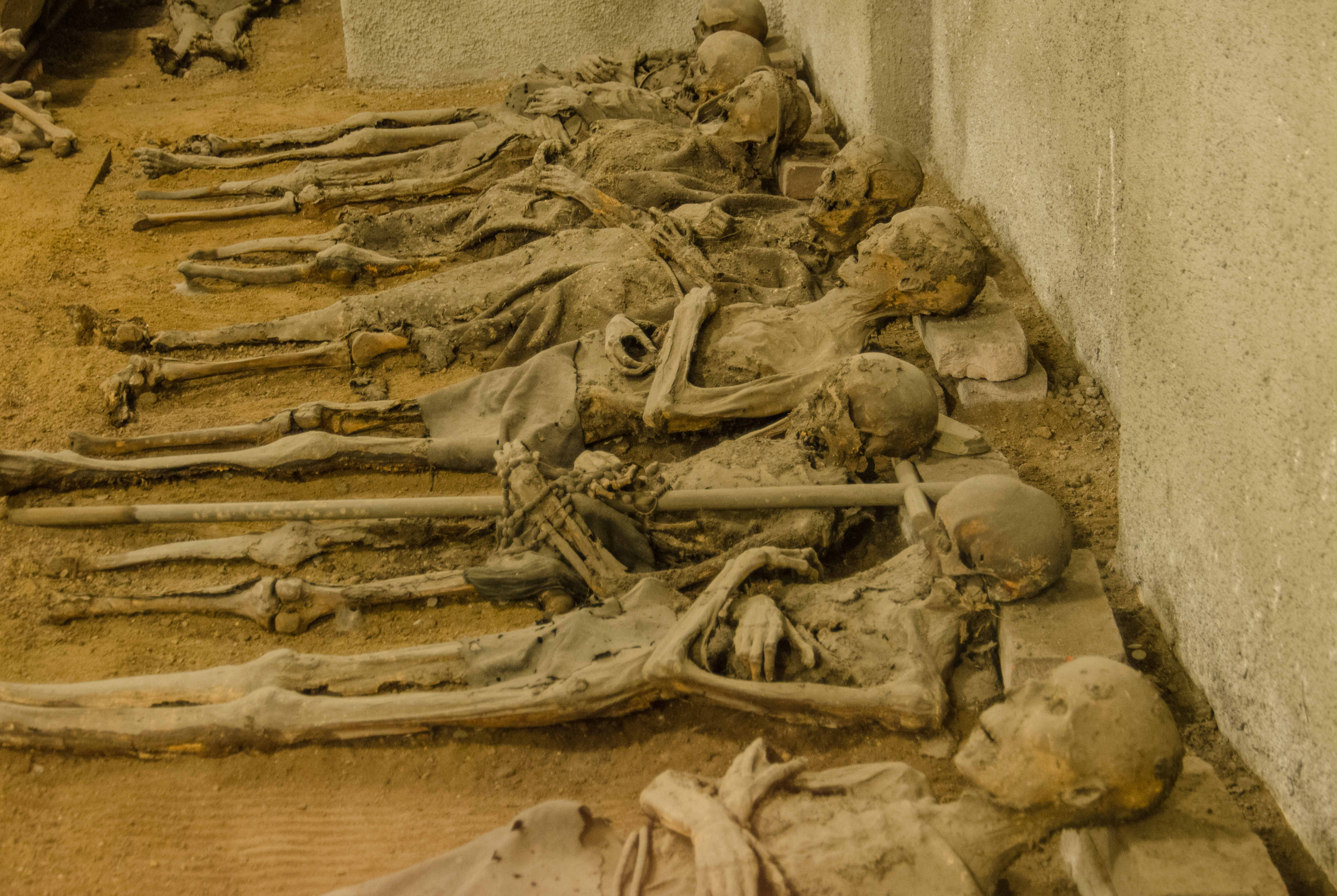 Capuchin Crypt in Brno